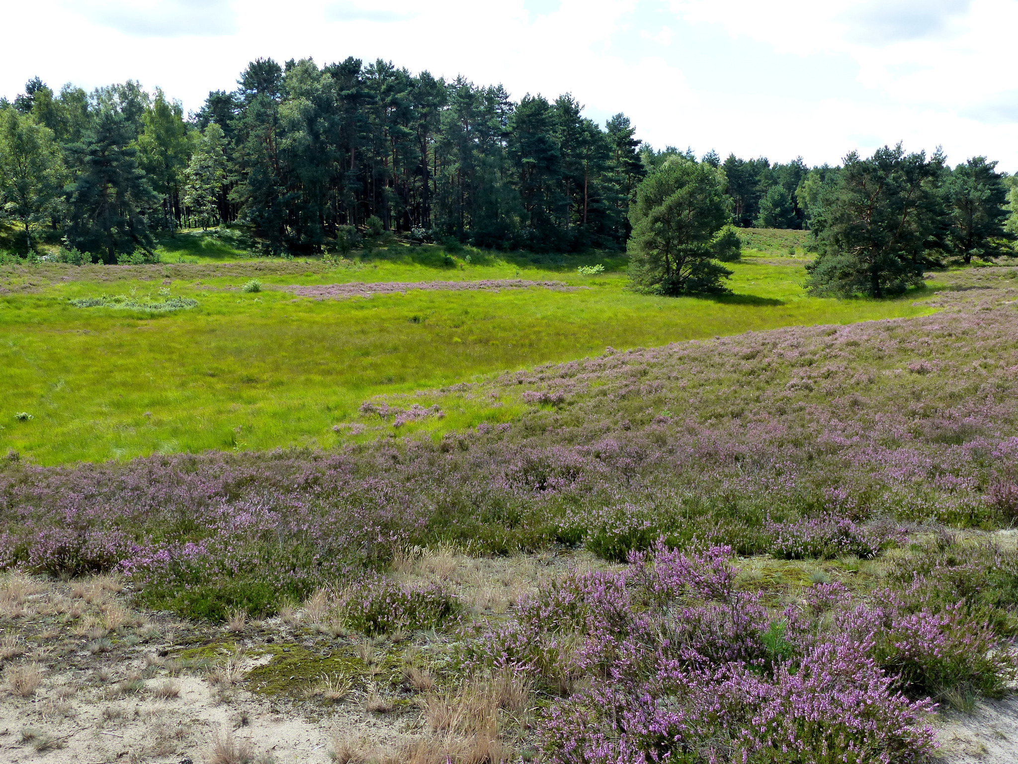 Gifhorner Heide near Winkel (Gifhorn)